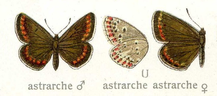 Polyommatus astrarche